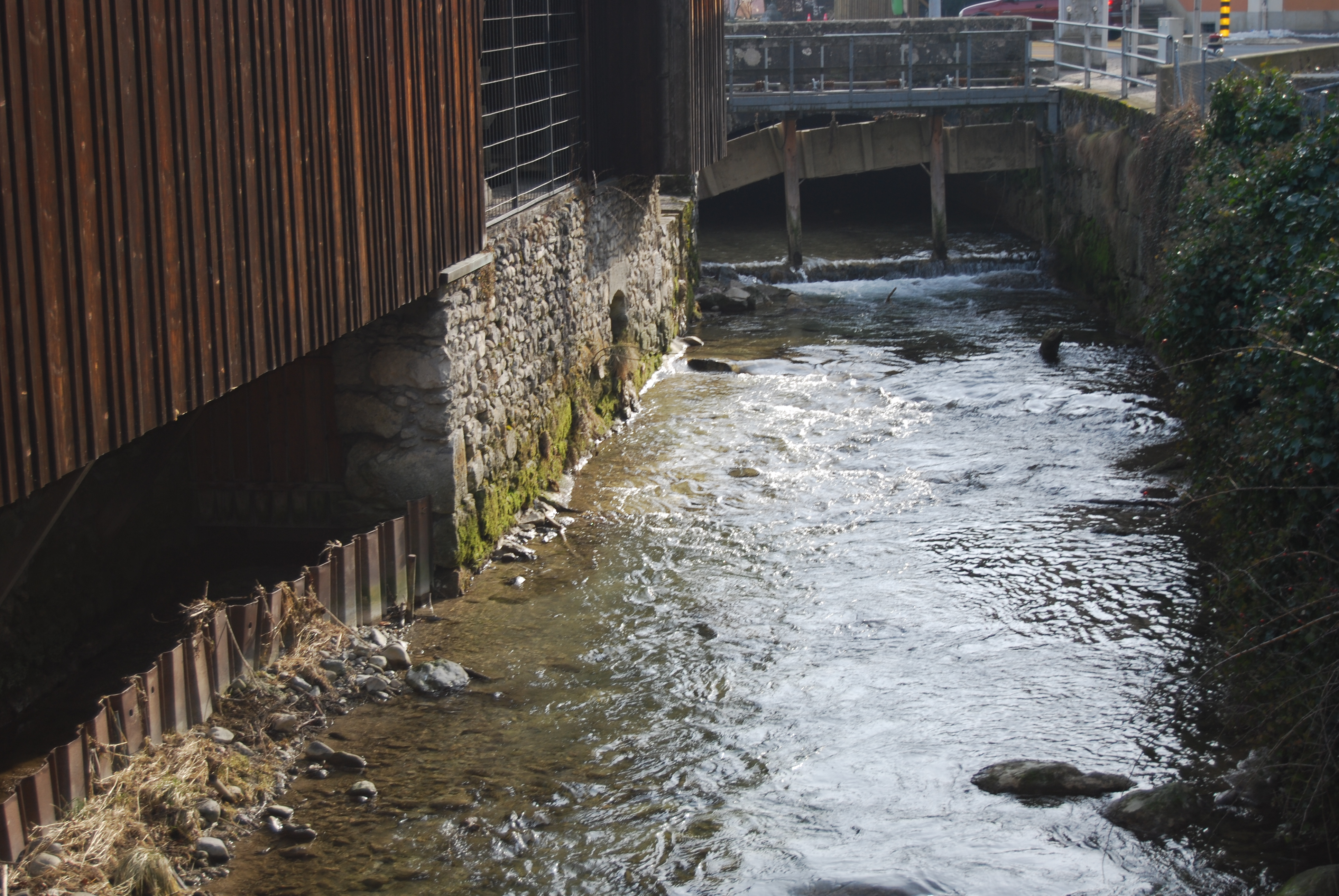 River Wyna at Menziken, canton of Aargau, SwitzerlandEsperanto: Rivero Wyna en Menziken, Kantono Argovio, Svislando